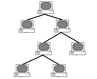 Illustration of Tree topology